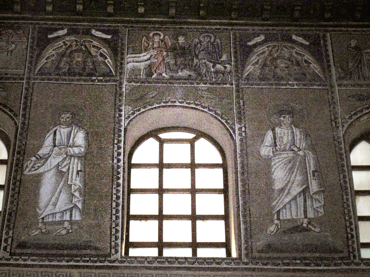 Prophets; (upper band) scenes from the life of Christ (separation of the sheep with the goat). Detail from "Christ surrounded by angels and saints", mosaic of a Ravennate italian-byzantine workshop, completed within 526 AD by the so-called "Master of Sant'Apollinare". Basilica of Sant'Apollinare Nuovo in Ravenna, Italy.